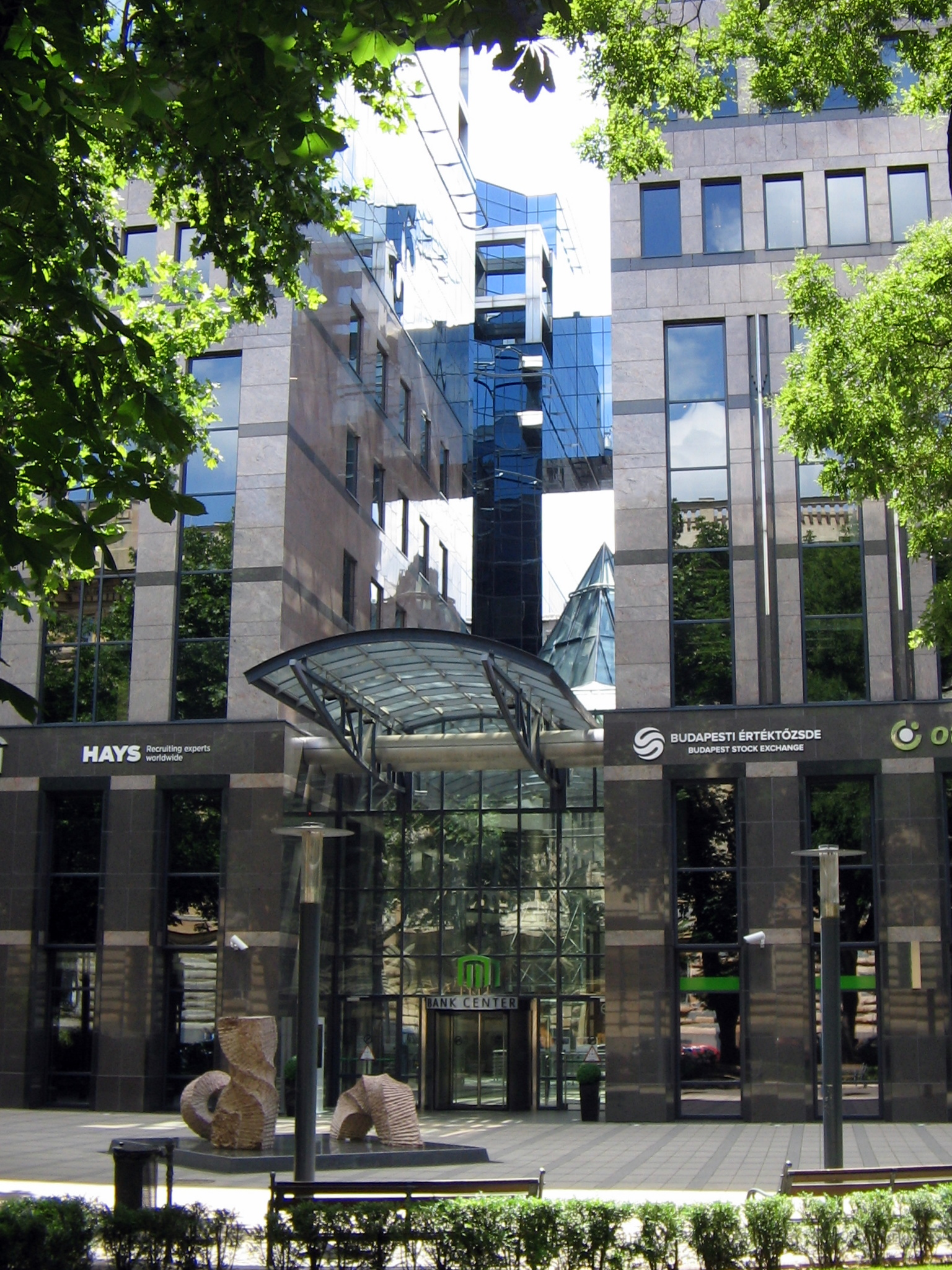 Budapest, Palace District, Hungary